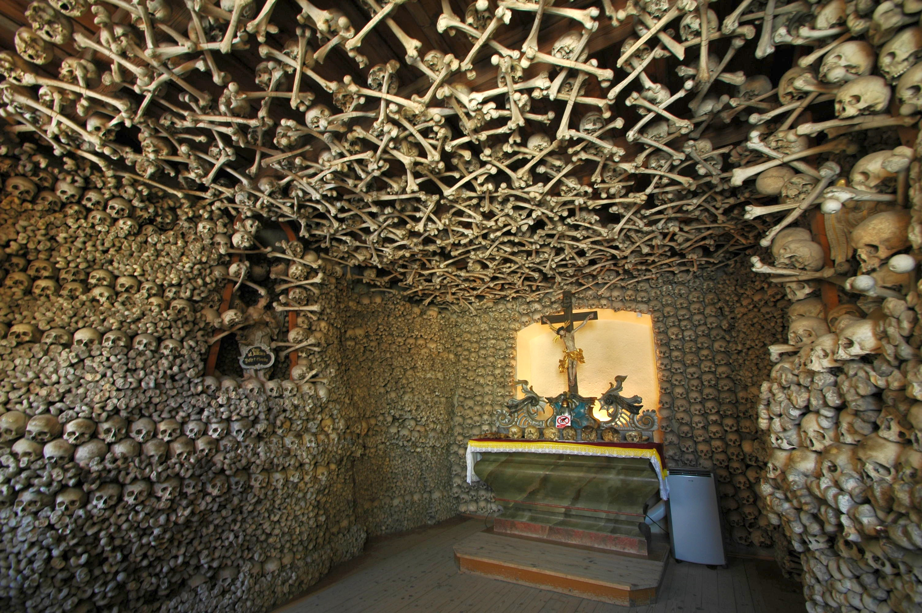 Chapel of Skulls in Czermna, Poland. Kaplica Czaszek w Czermnej. Poland - Czermna - Chapel of Skulls - interior